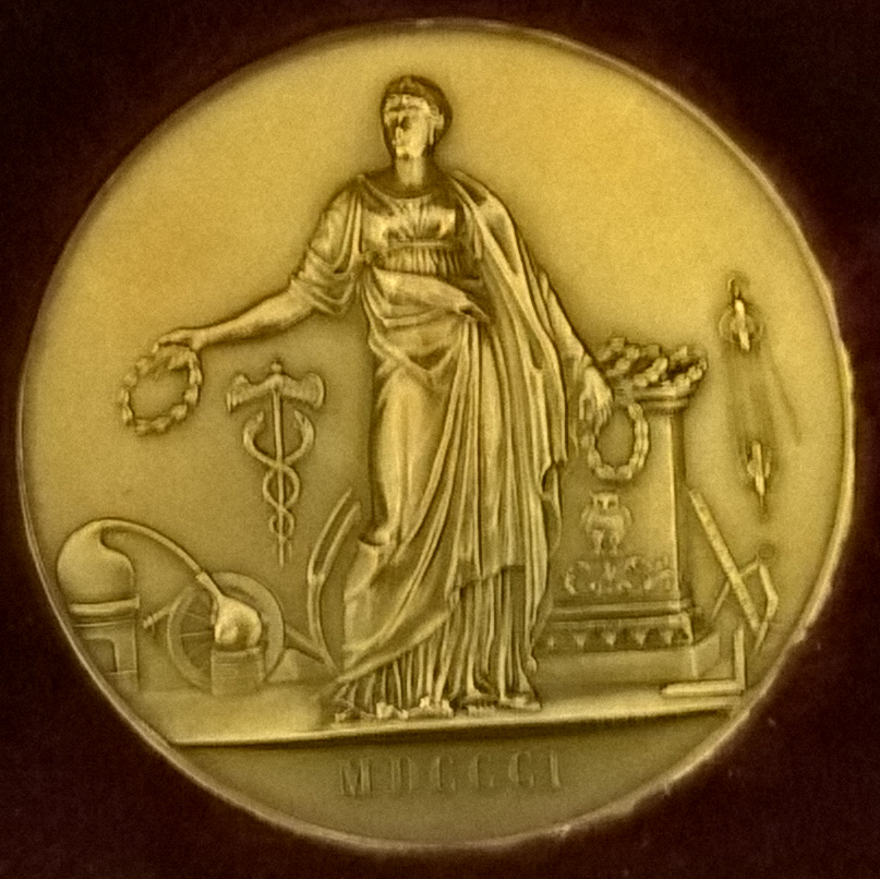 Gold medal awarded to Sir Robert Hadfield for Scientific Attainments in Metallurgy, 1809. On display in the Sir Robert Hadfield Building, University of Sheffield. Société d'encouragement pour l'industrie nationale.